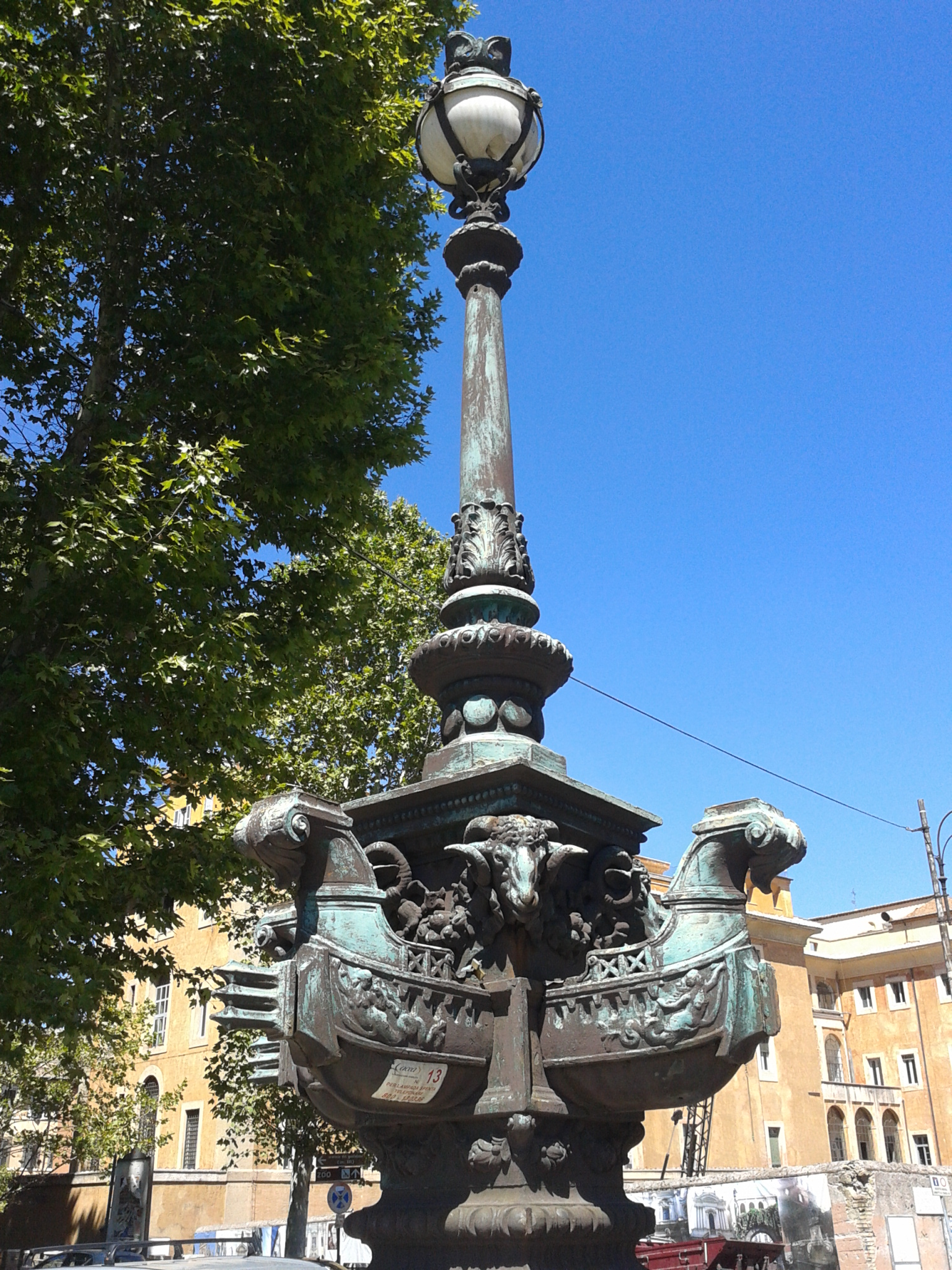 First street light, coming from Via Giulia, on Giuseppe Mazzini bridge in Rome, Italy